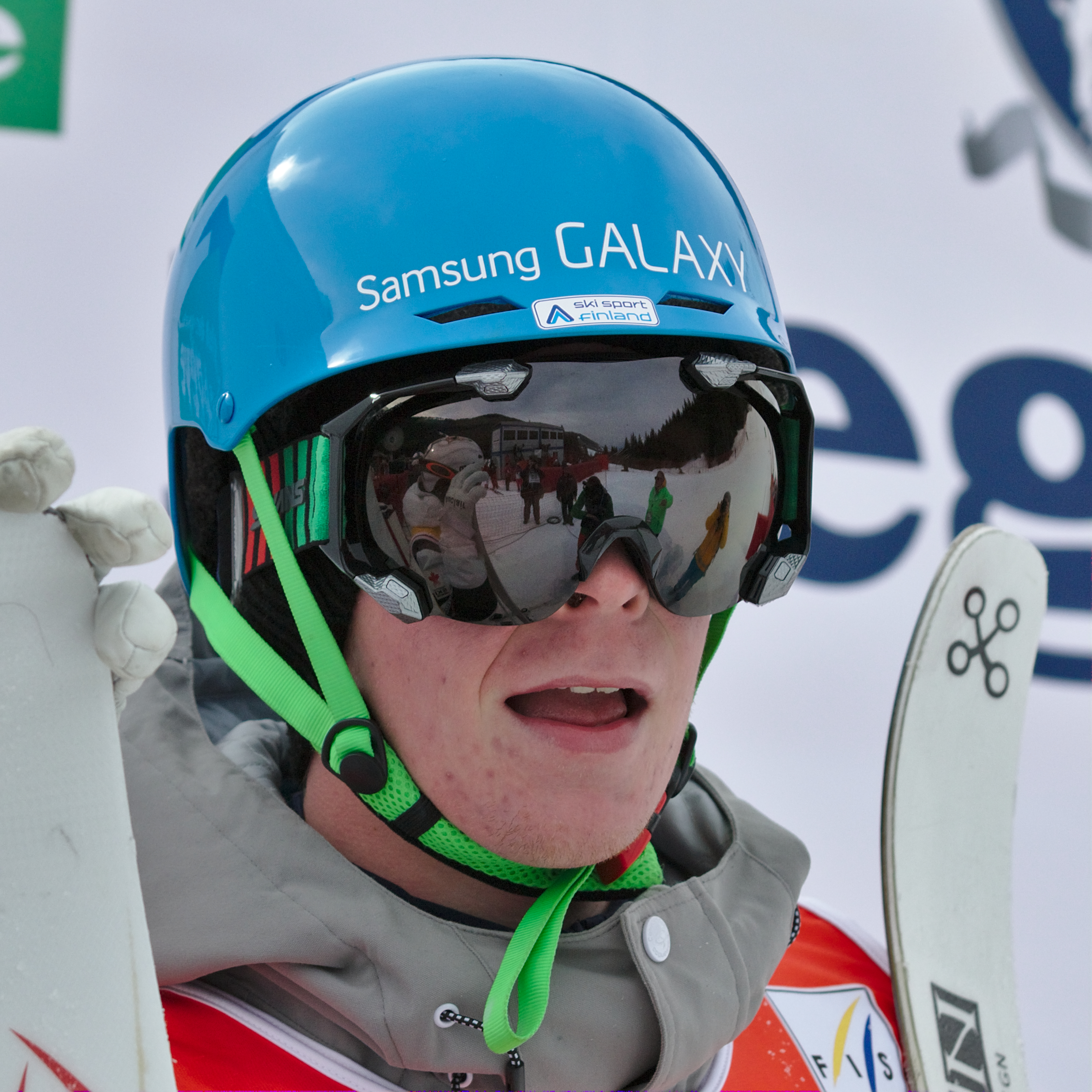 FIS Moguls World Cup 2015 Finals - Megève - 20150315 - Jimi Salonen